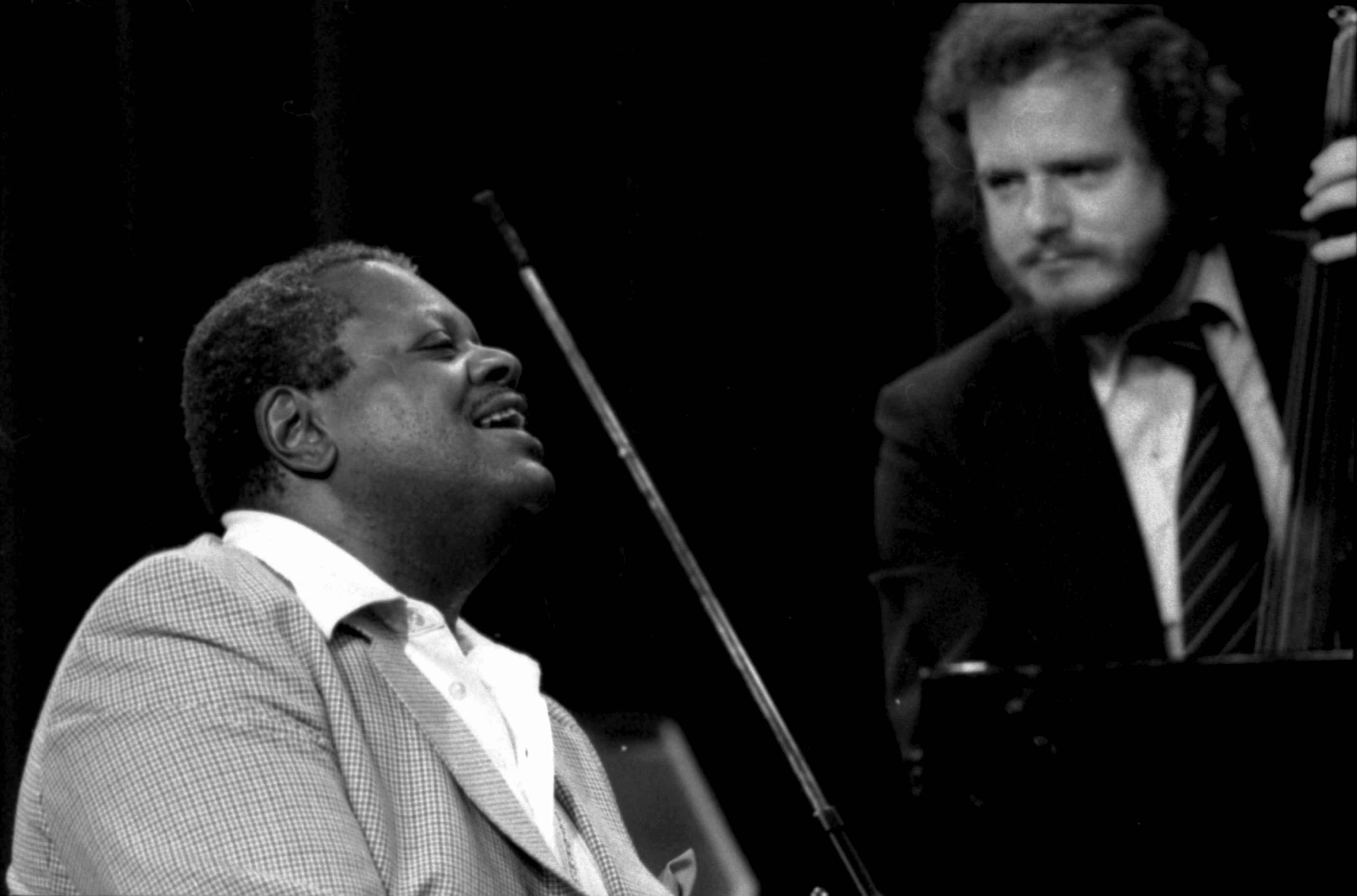 Oscar Peterson and Niels-Henning Ørsted Pedersen at Montreux Jazz Festival, July 1979.